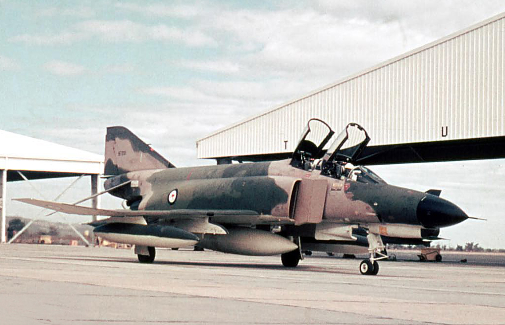 F-4E Phantom out of RAAF Amberly at Pearce ADEX March 1971